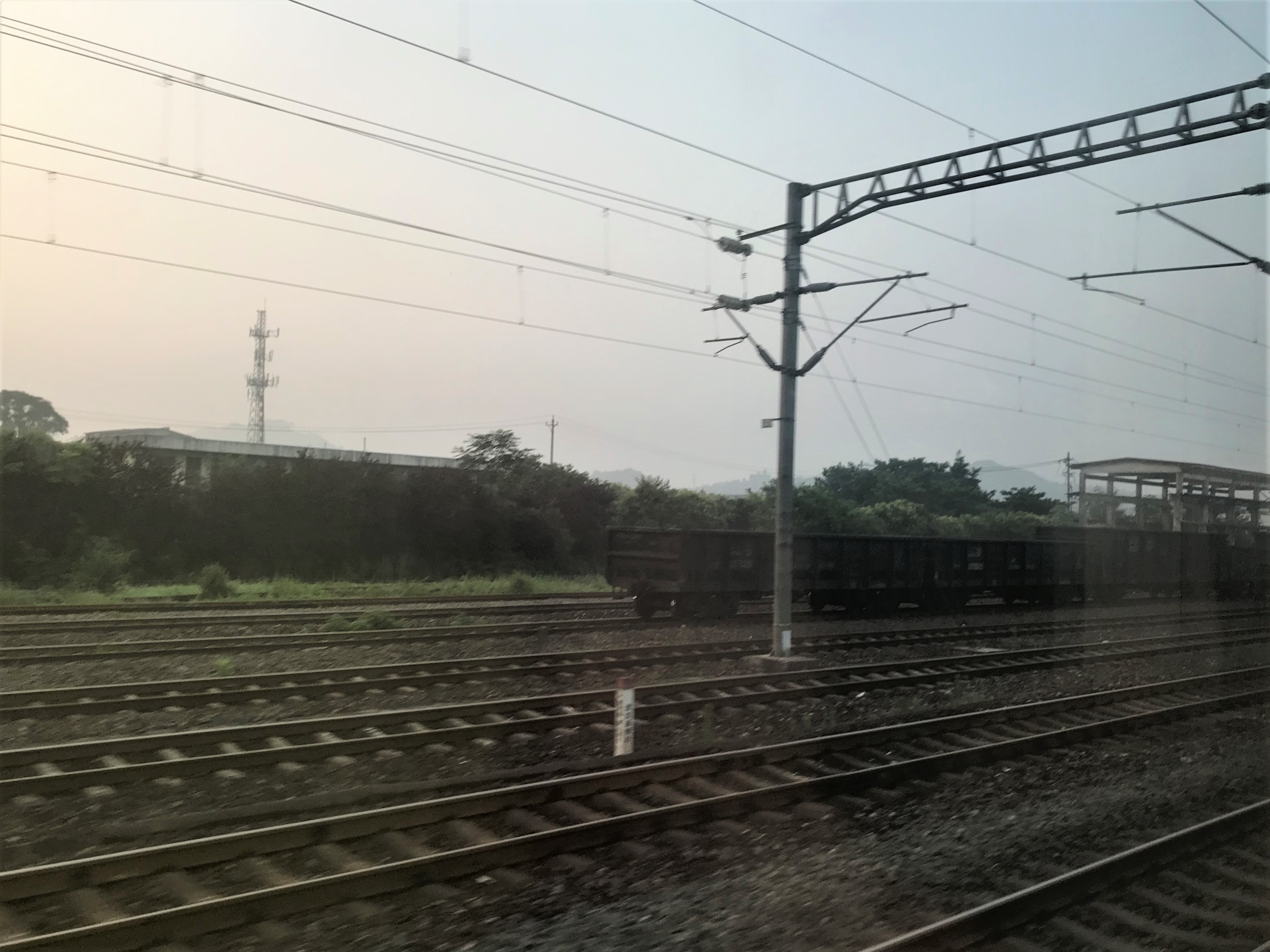 Formerly Guangshan Station